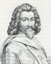 ArtistUnknownTitle